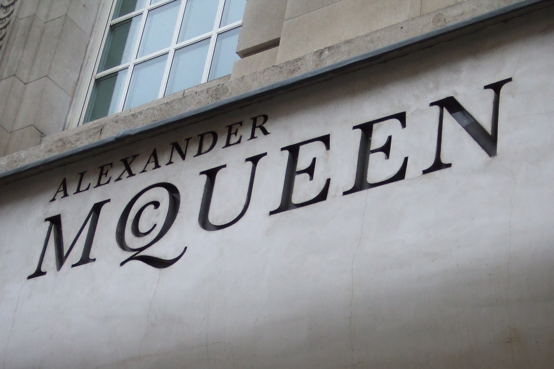 Alexander McQueen's logo in London